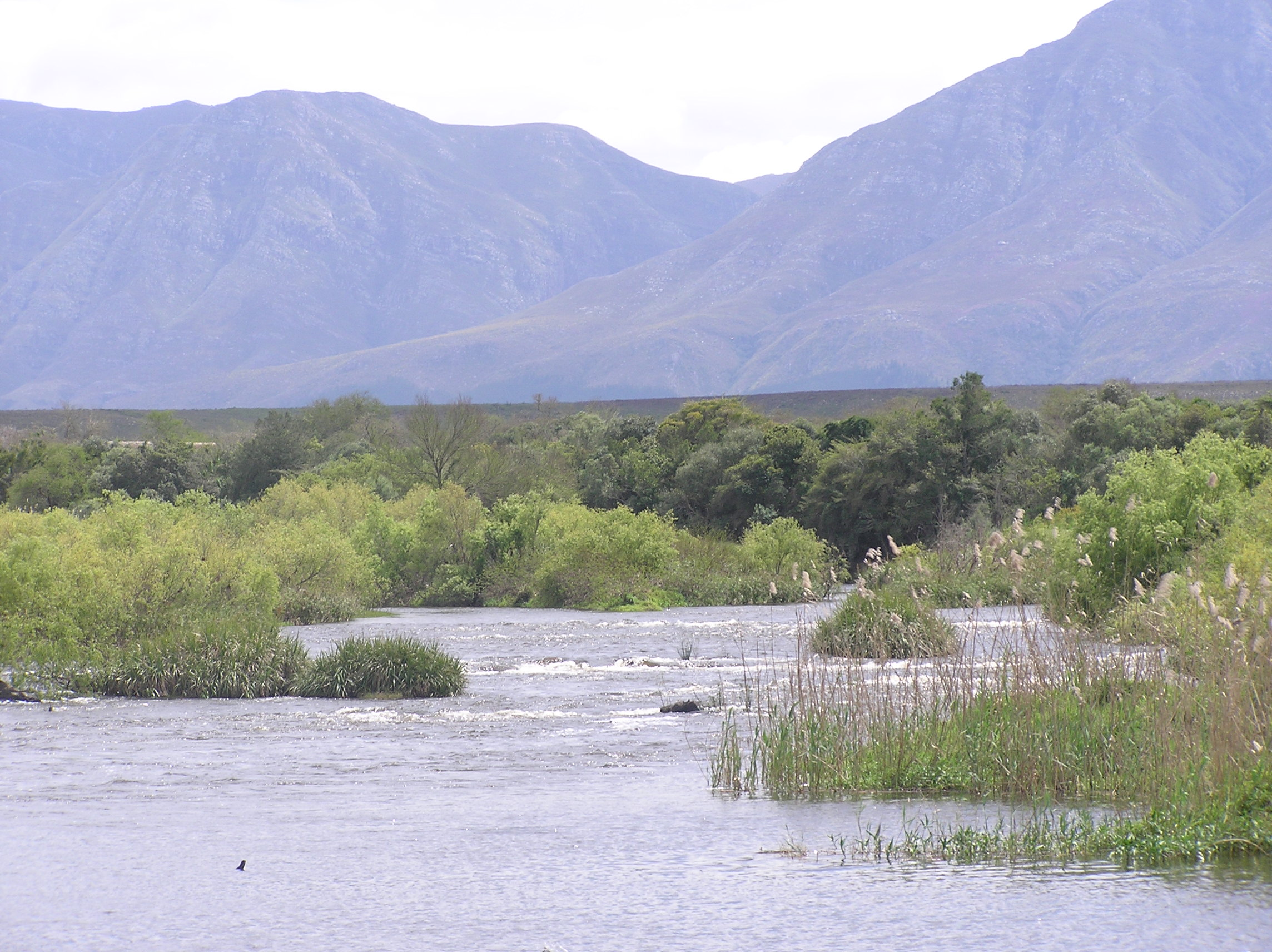 Breede River with Langeberg Mountain, Bontebok National Park, Western Cape, South Africa